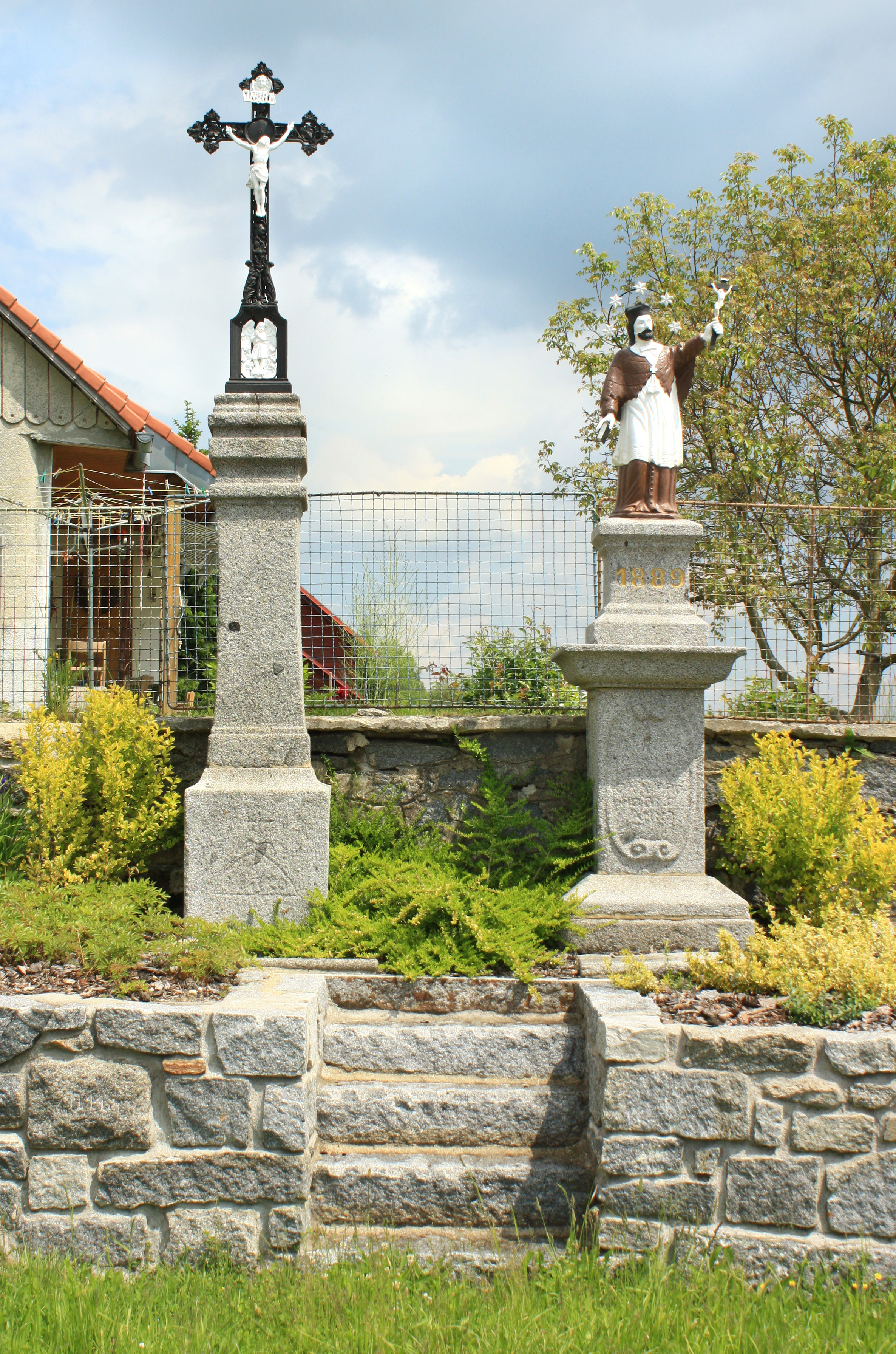 Crucifix in Číhaň, Czech Republic